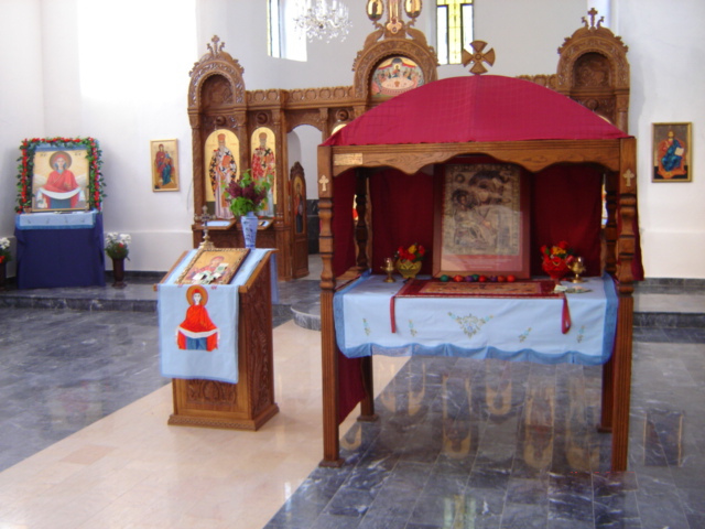 Orthodox church in Srebrenica on Holy Saturday